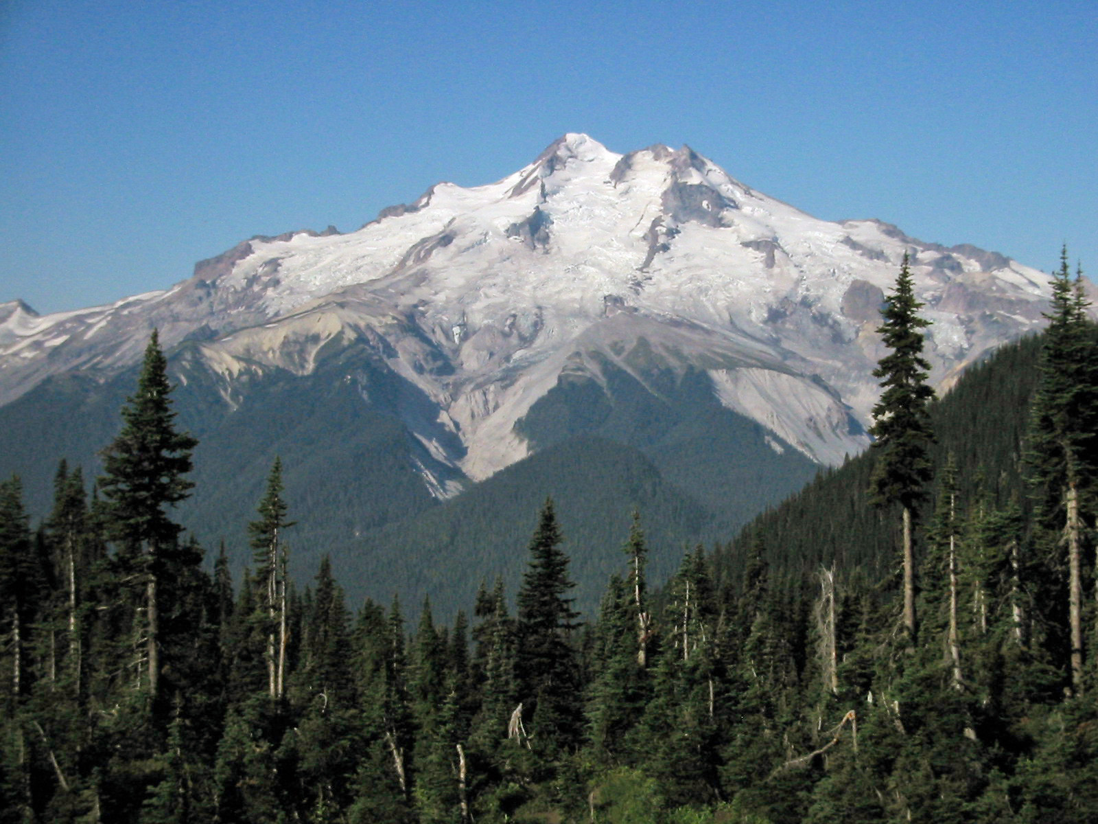 Glacier Peak 10541 feet), Cool, Chocolate (center), North Guardian and Dusty Glaciers (l to r).